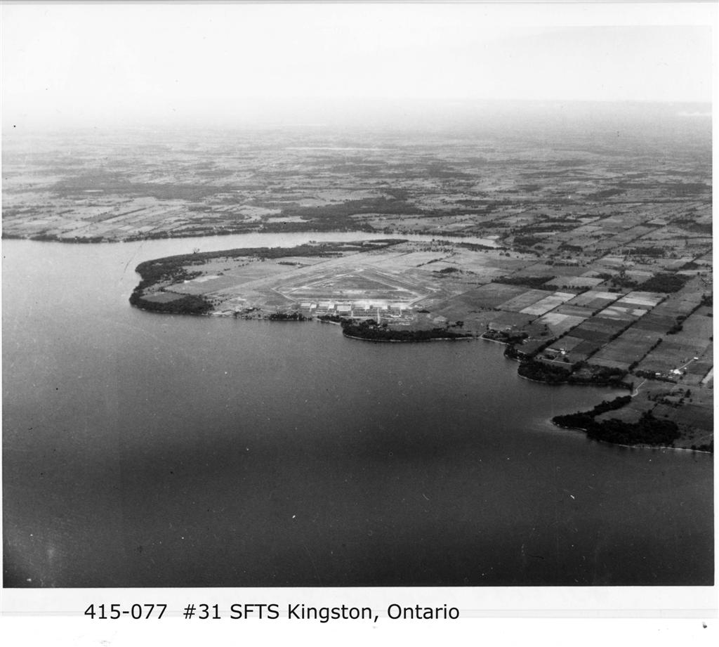 Aerial of RCAF Station Kingston sometime during World War II. The camera is on the east side of the airfield and the view is facing west/ north-west.